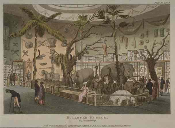 Bullock Museum Interior